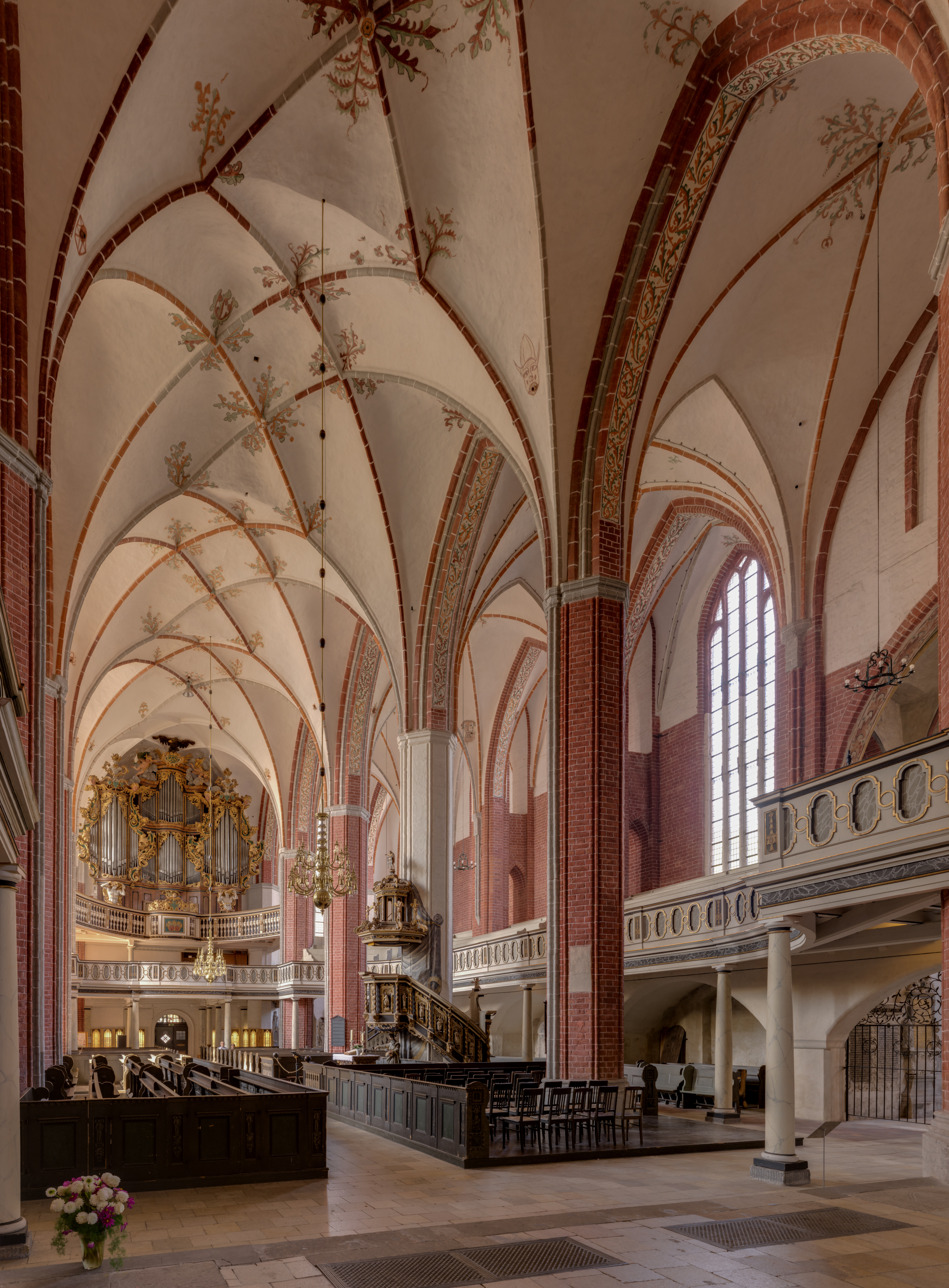 Interior of the Katharinenkirche in Brandenburg an der Havel (Germany)